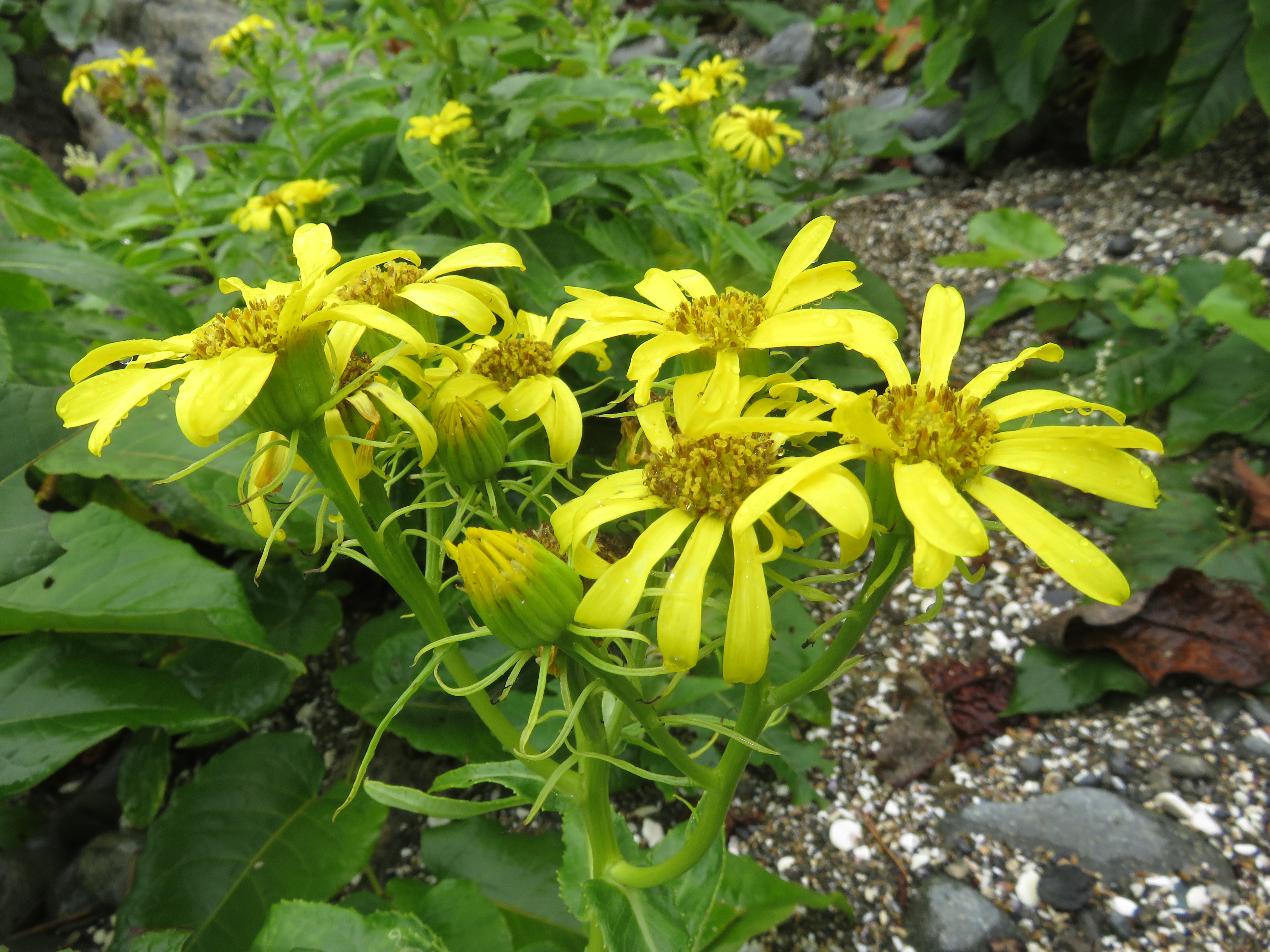 Senecio pseudoarnica, Tanesashi Coast, Aomori pref., Japan